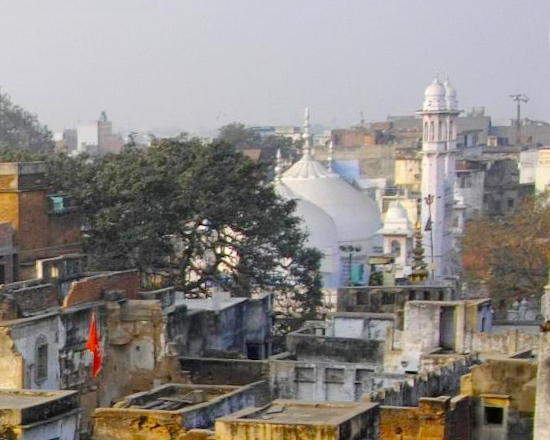 Gyanvapi Mosque was constructed by Mughal Emperor Aurangzeb.It is located in Varanasi